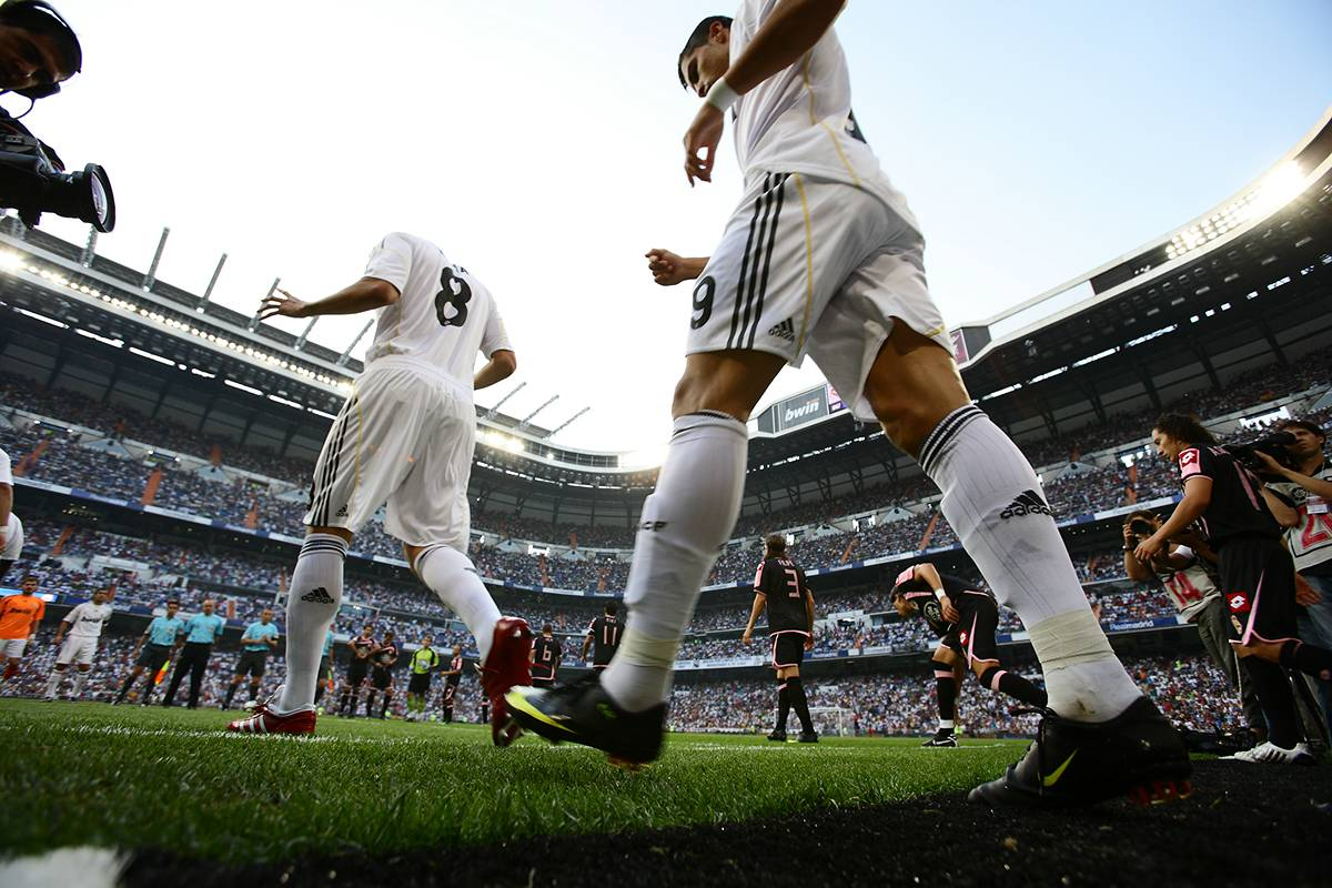 Football : Kaka and Cristiano Ronaldo of Real Madrid enter the pitch before the La Liga match between Real Madrid and Deportivo La Coruna at the Santiago Bernabeu stadium on August 29, 2009 in Madrid, Spain. (Photo by Tsutomu Takasu)